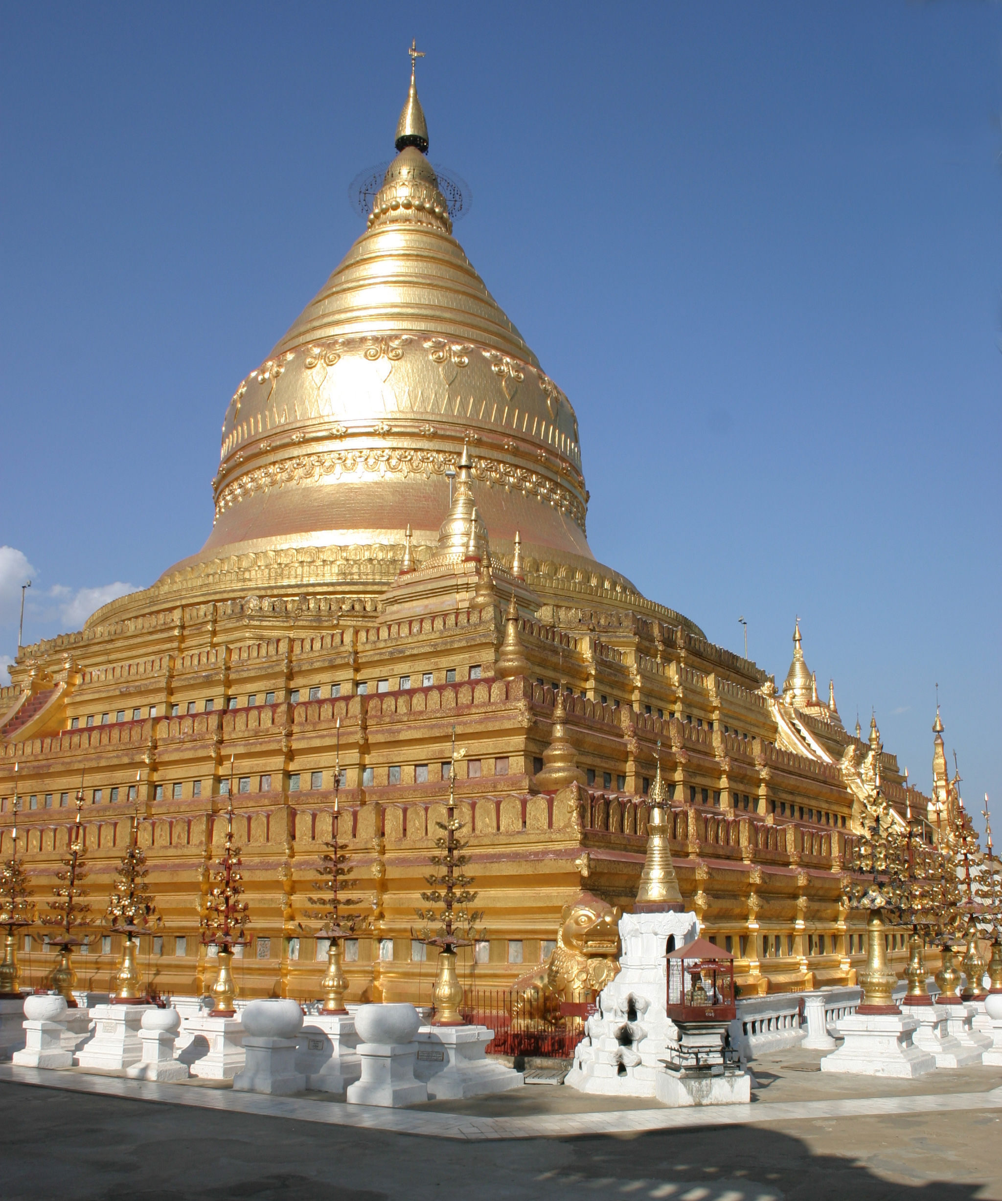 Shwezigon pagoda, Bagan, Myanmar.